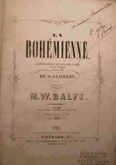 Cover for the score of La bohémienne, a French version of Michael Balfe's opera The Bohemian Girl, adapted by Henri Vernoy de Saint-Georges for the Théâtre Lyrique in Paris as performed beginning on 30 December 1869